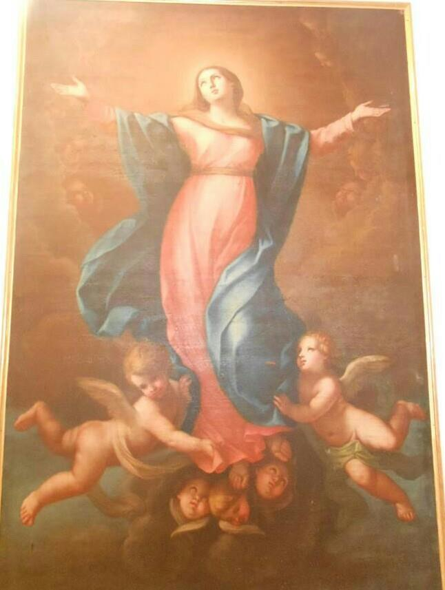 Montefalco, Madonna Assunta